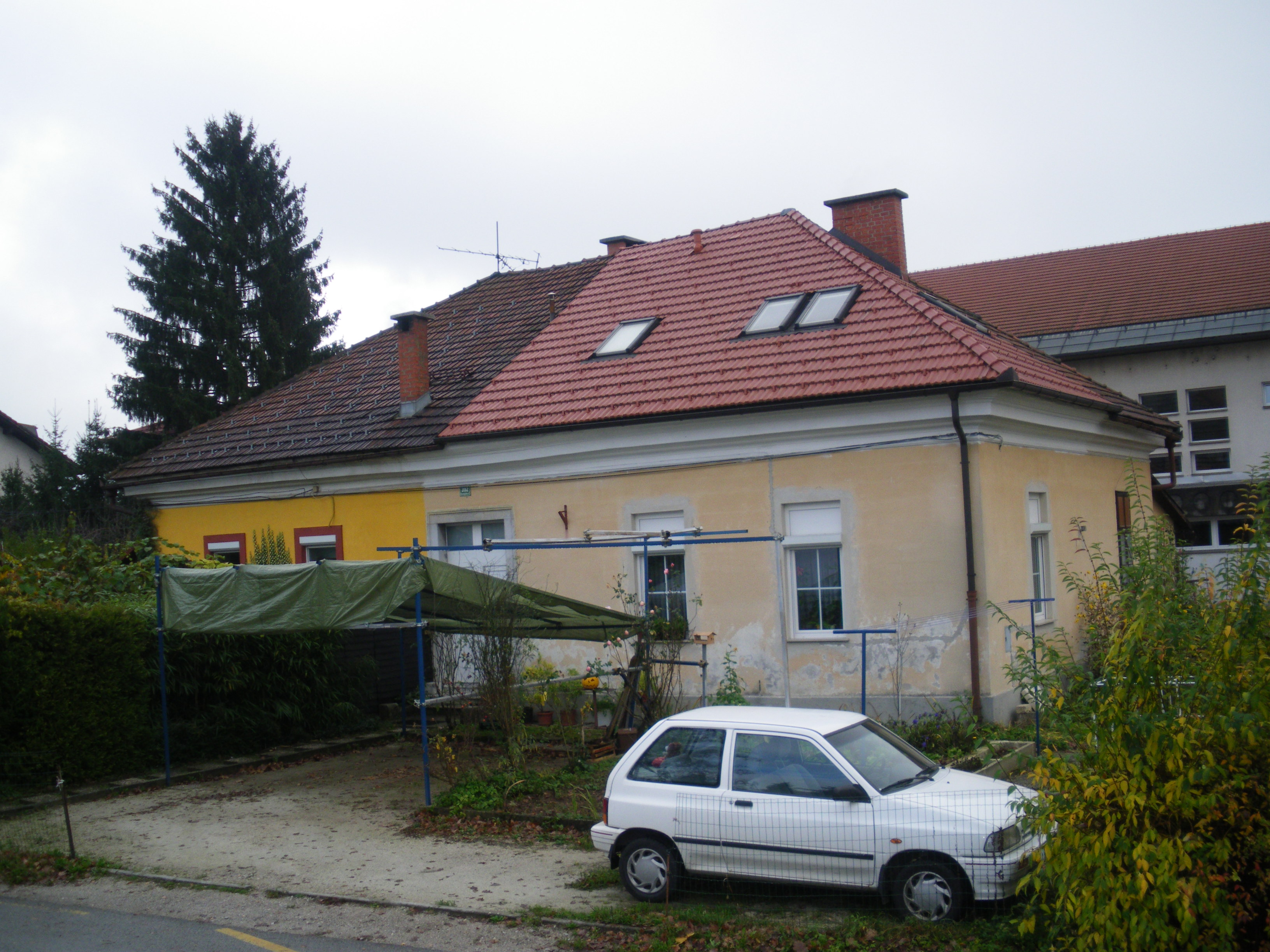 One of the former buildings of the Črnuče Primary School, used between 1898 and 1938.